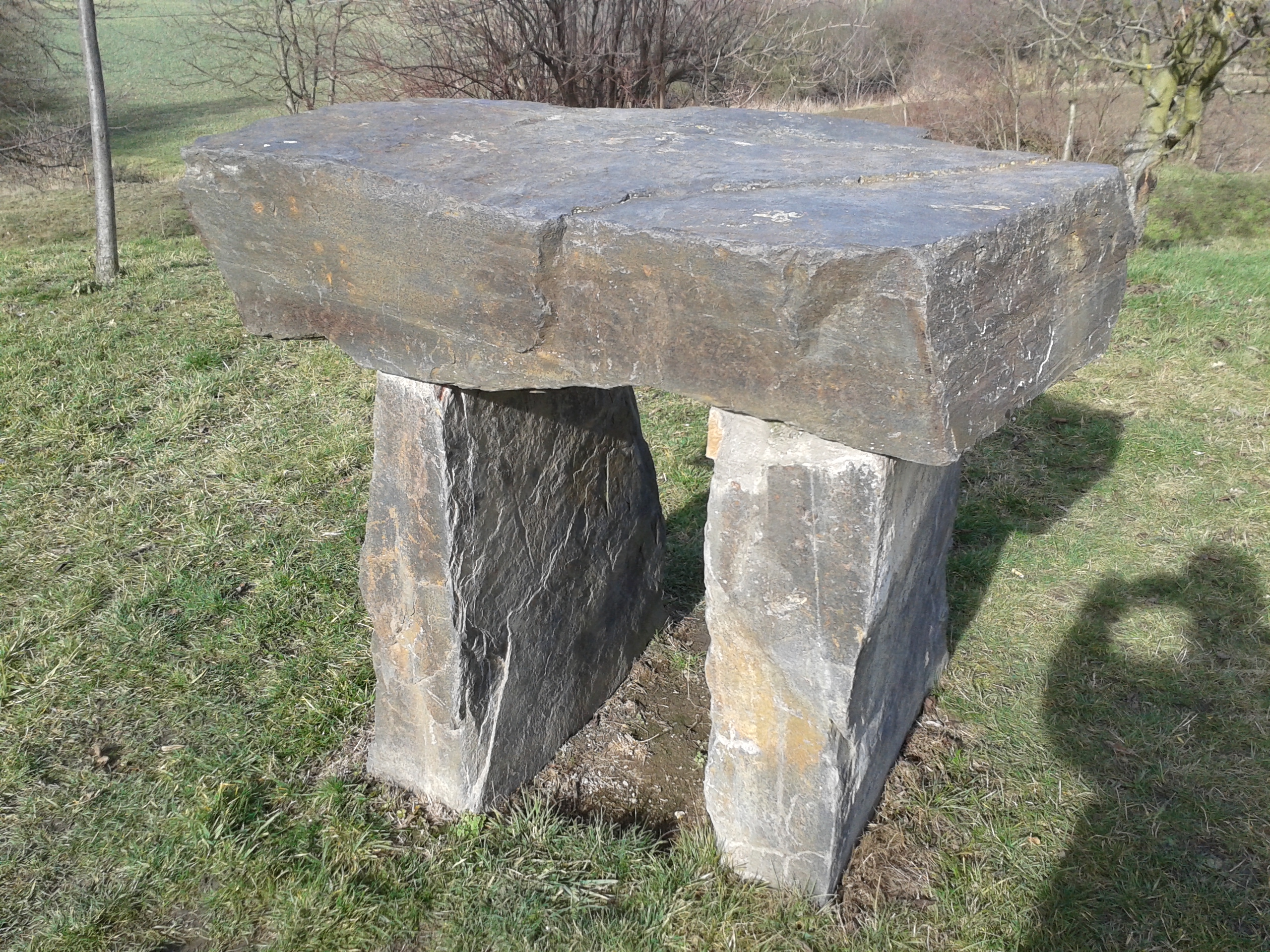 Prague-Třebonice, Czech Republic. Krteň, a stone table